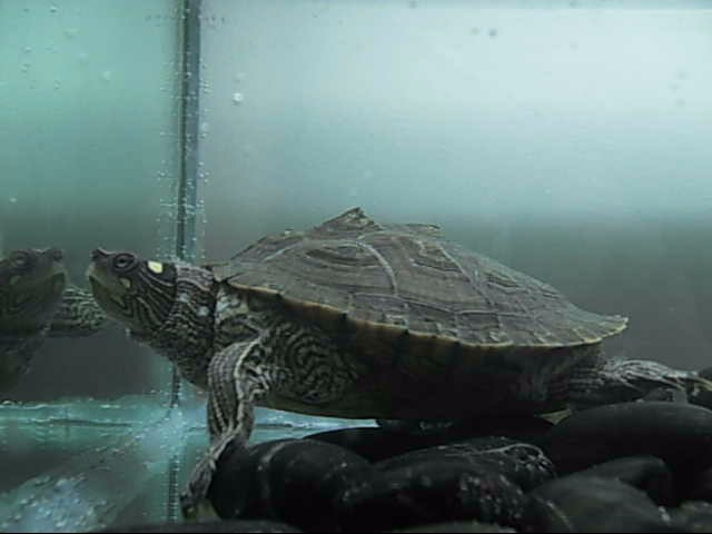 Graptemys ouachitensis